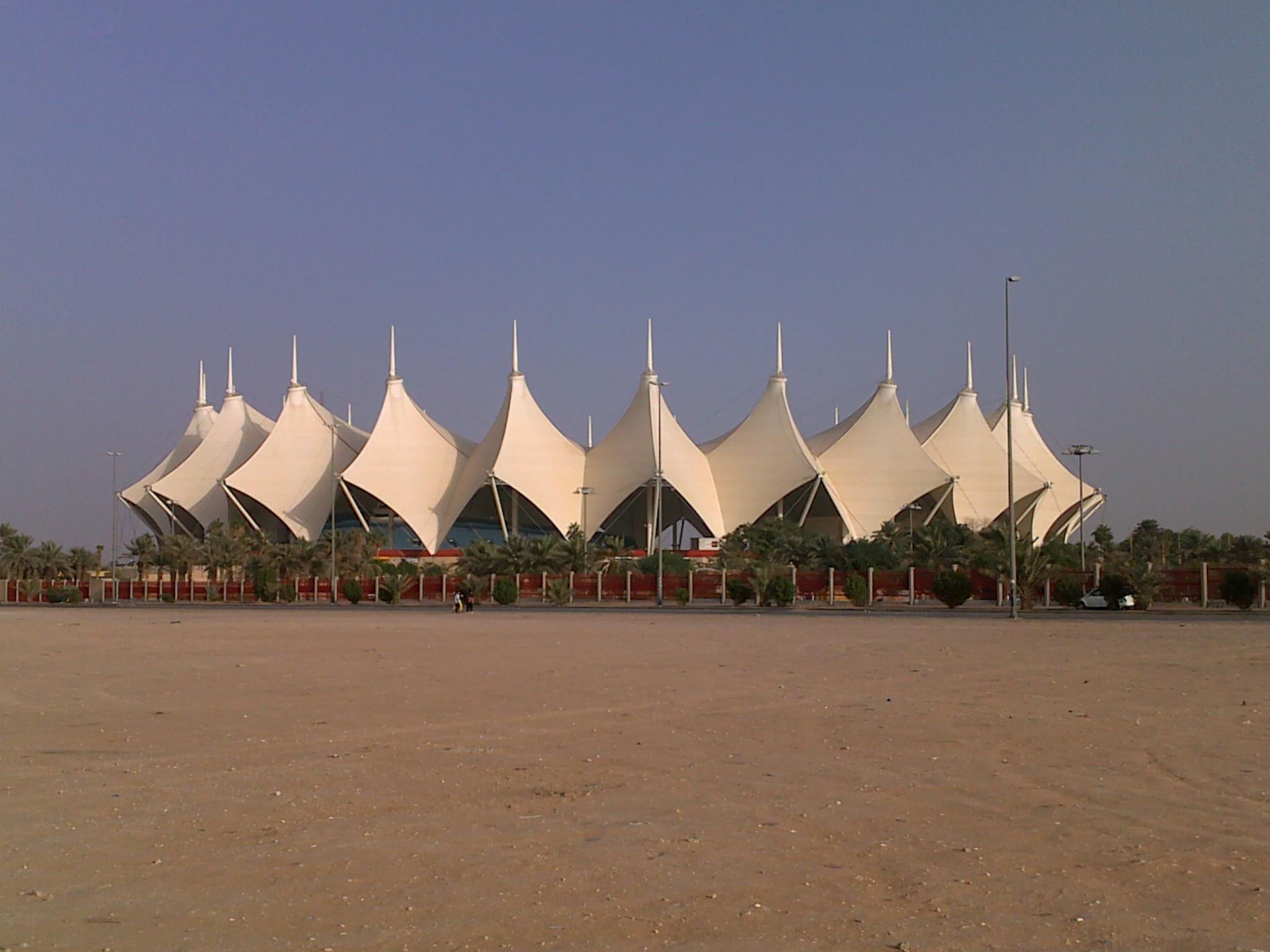 King Fahad Stadium, east of Riyadh.